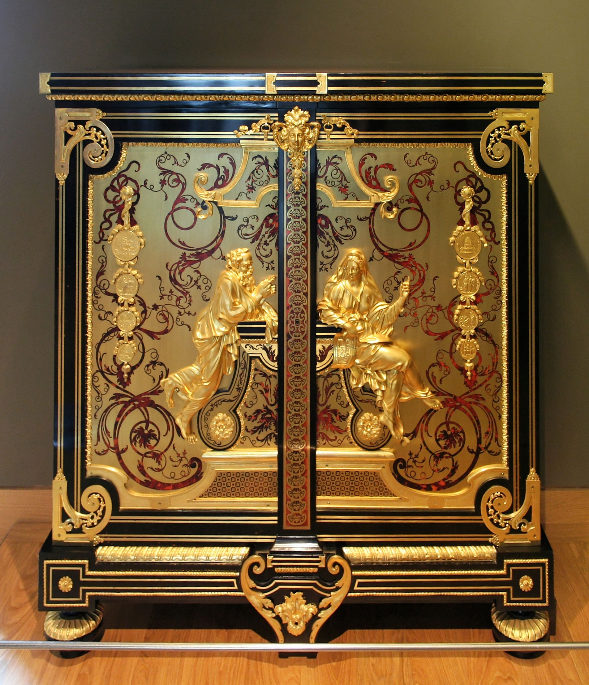 Cupboard. Commissioned for the Concert Room of the Tuileries Palace. Ebony, red scale and brass, Paris, 1834.